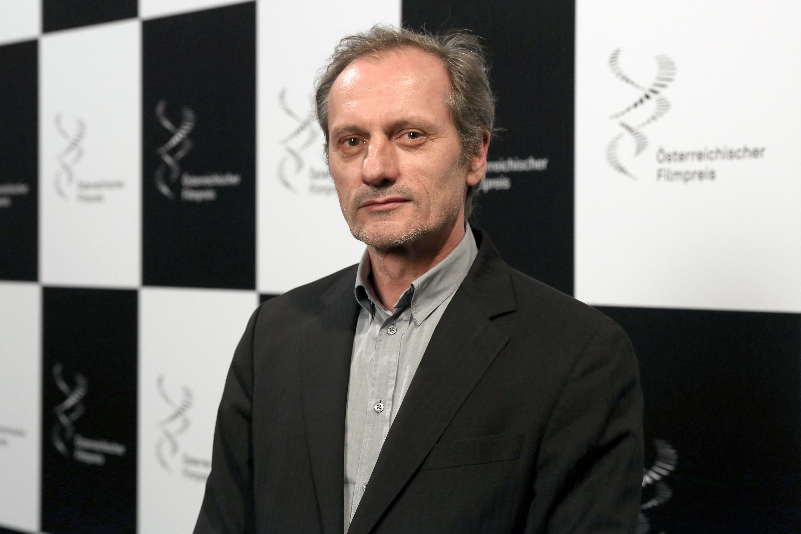 Götz Spielmann, nominee for best derector and best movie ("September Oktober"), at the Austrian Film Awards 2014 (Grafenegg, Austria).